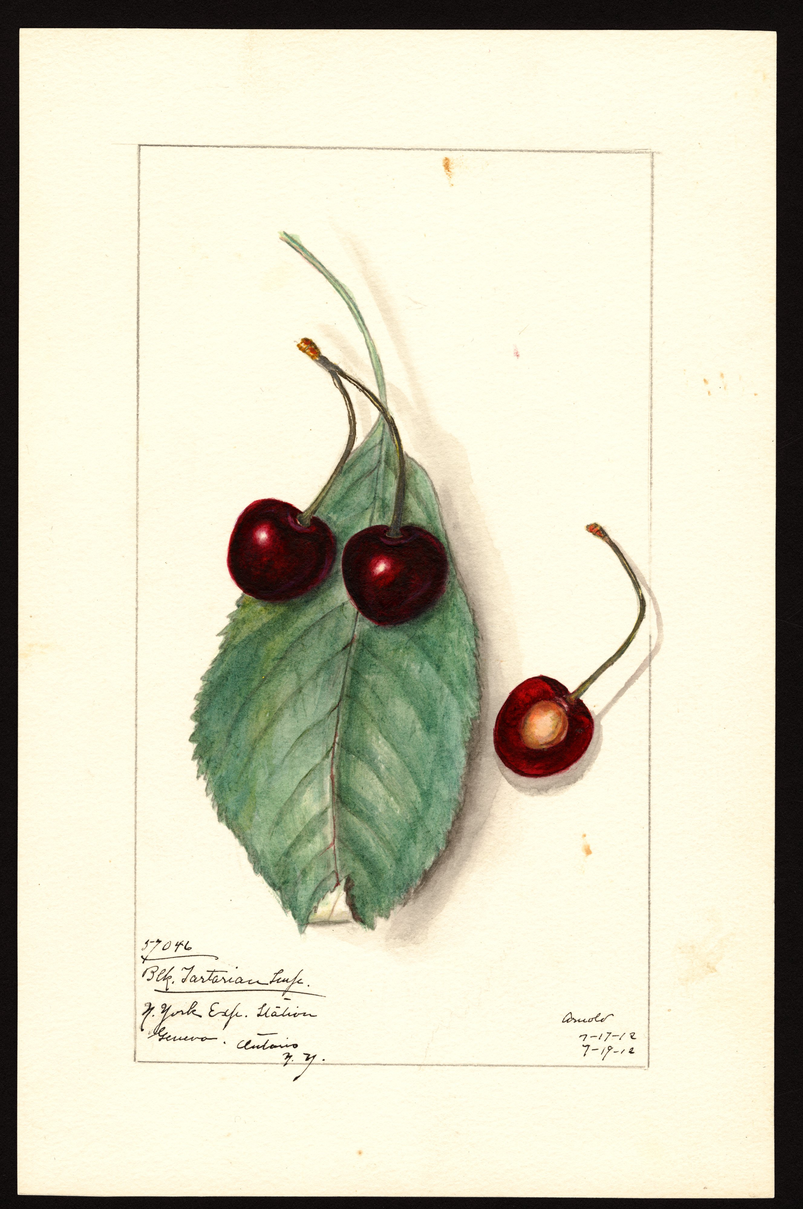 Image of the Black Tartarian Imp. variety of cherries (scientific name: Prunus avium), with this specimen originating in Geneva, Ontario County, New York, United States. Source: U.S. Department of Agriculture Pomological Watercolor Collection. Rare and Special Collections, National Agricultural Library, Beltsville, MD 20705.